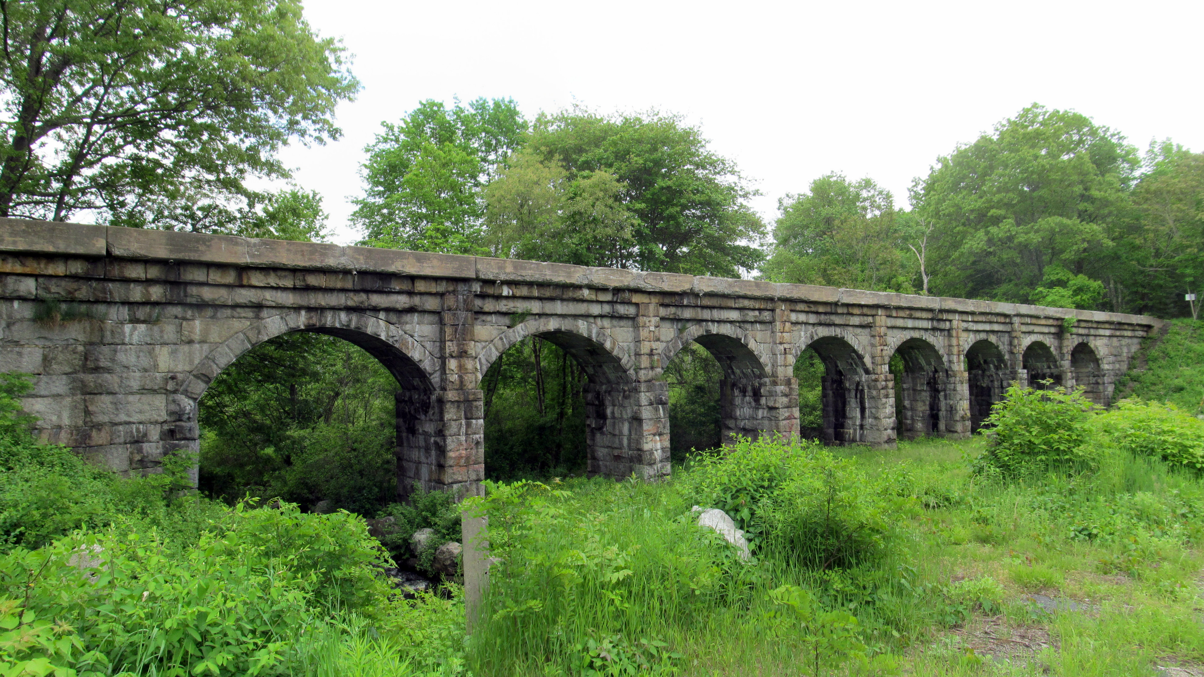 Former Milford Branch viaduct in Holliston in May 2017